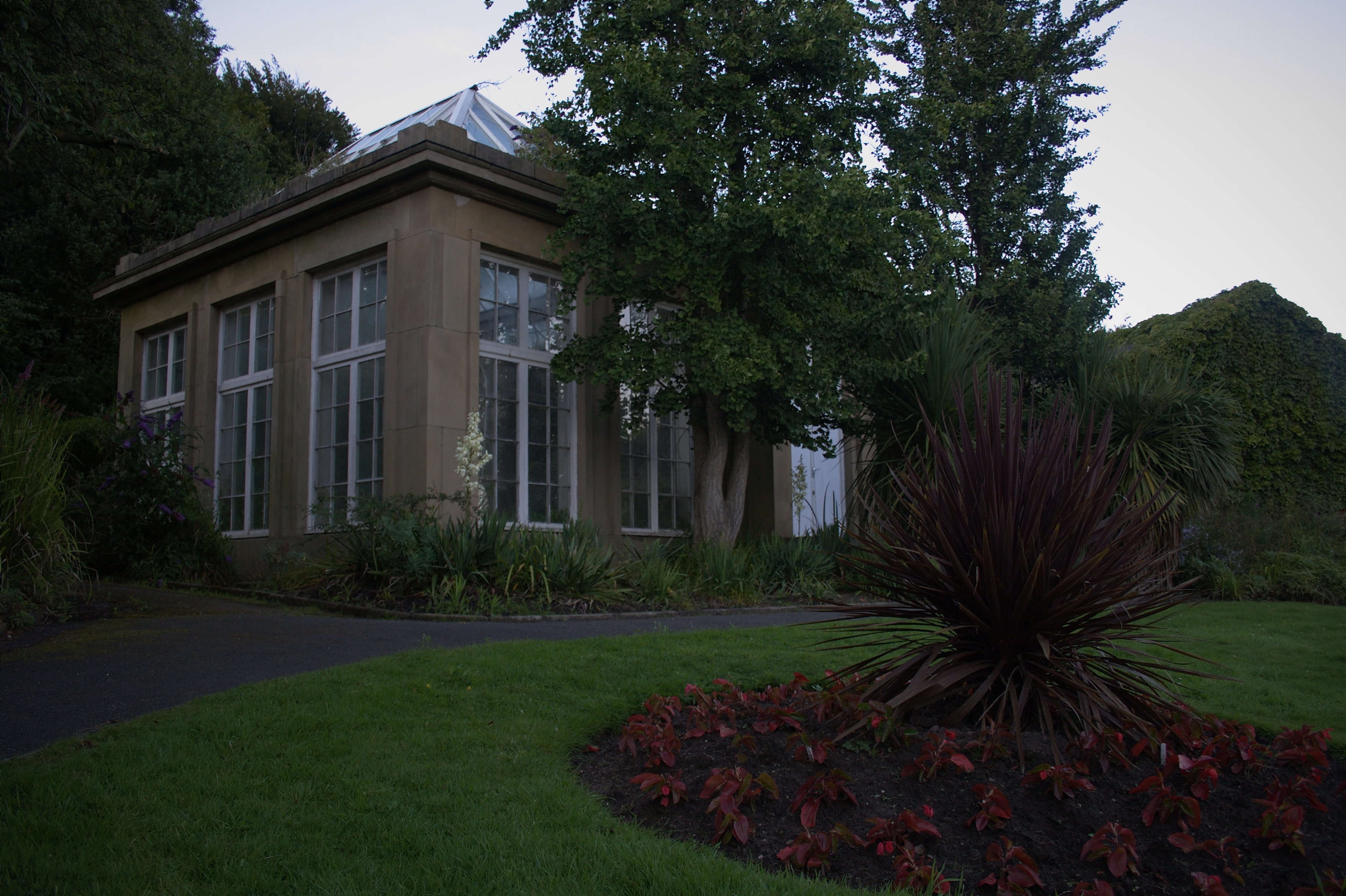 The conservatory at Philips Park, Bury